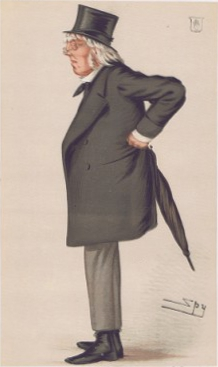 Caricature of Sir FHC Doyle Bt. Caption read "Poetry".